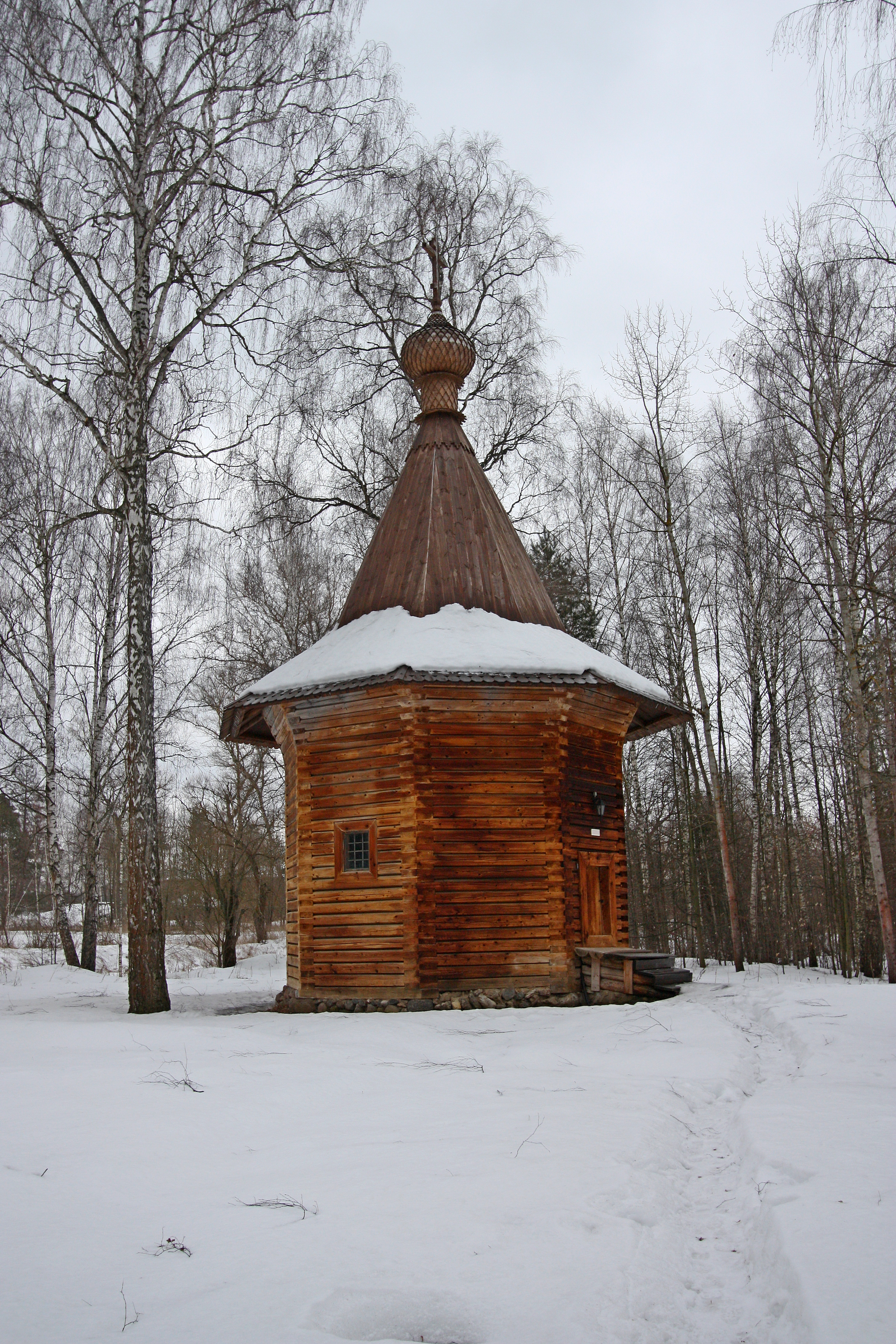 Chapel of the village Sokolniki Chekhov district. Museum of wooden architecture on the river Istra at the new Jerusalem monastery. Istra, Istrinsky G. O., Moscow oblast, Russia.